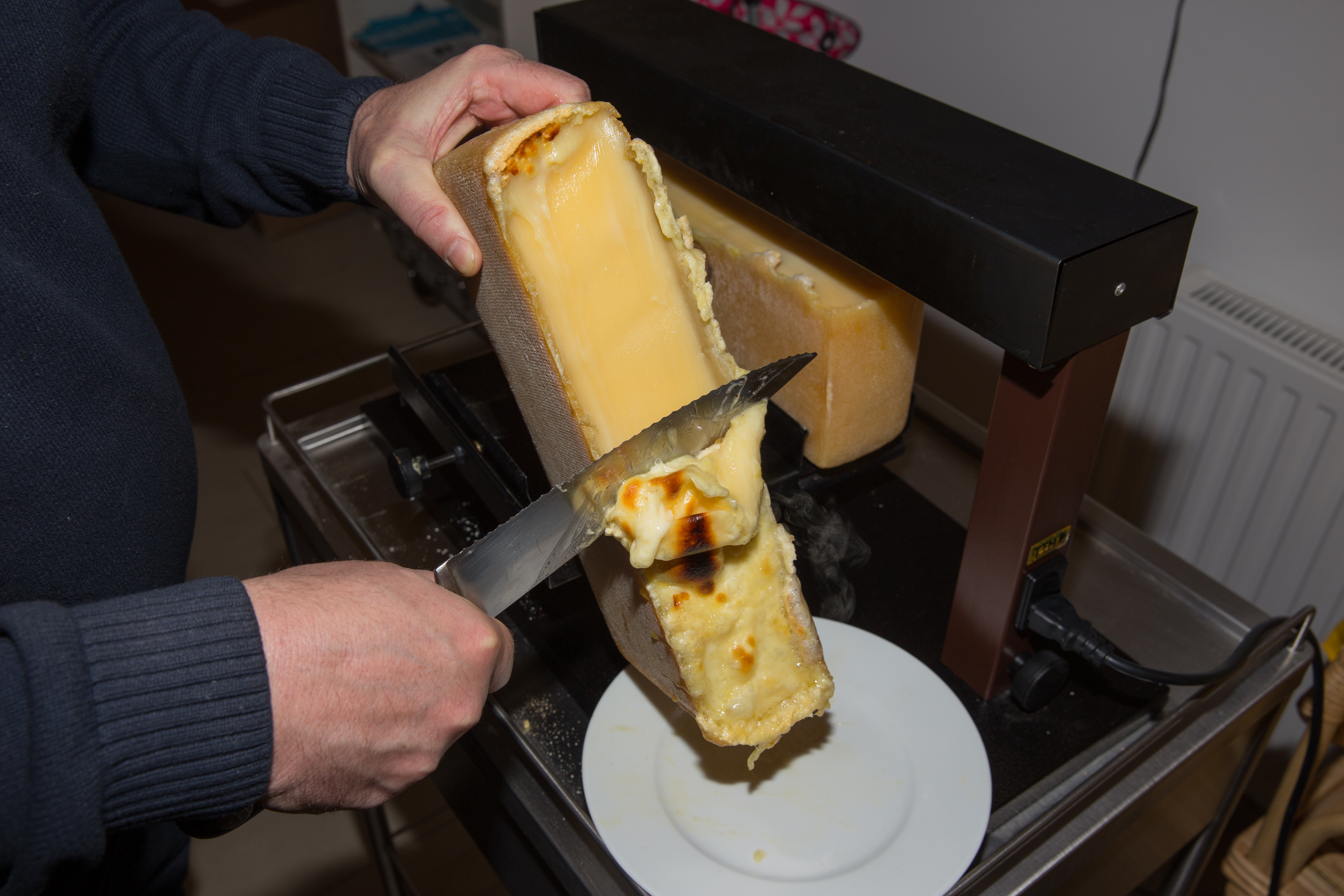 Raclette at the WMAT-Office in Vienna, January 6, 2015